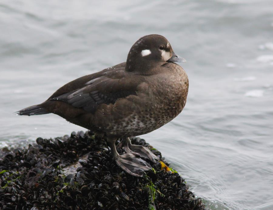 Female harlequin duck (Histrionicus histrionicus). Photograph taken March 2013 in Barnegat Light, NJ.